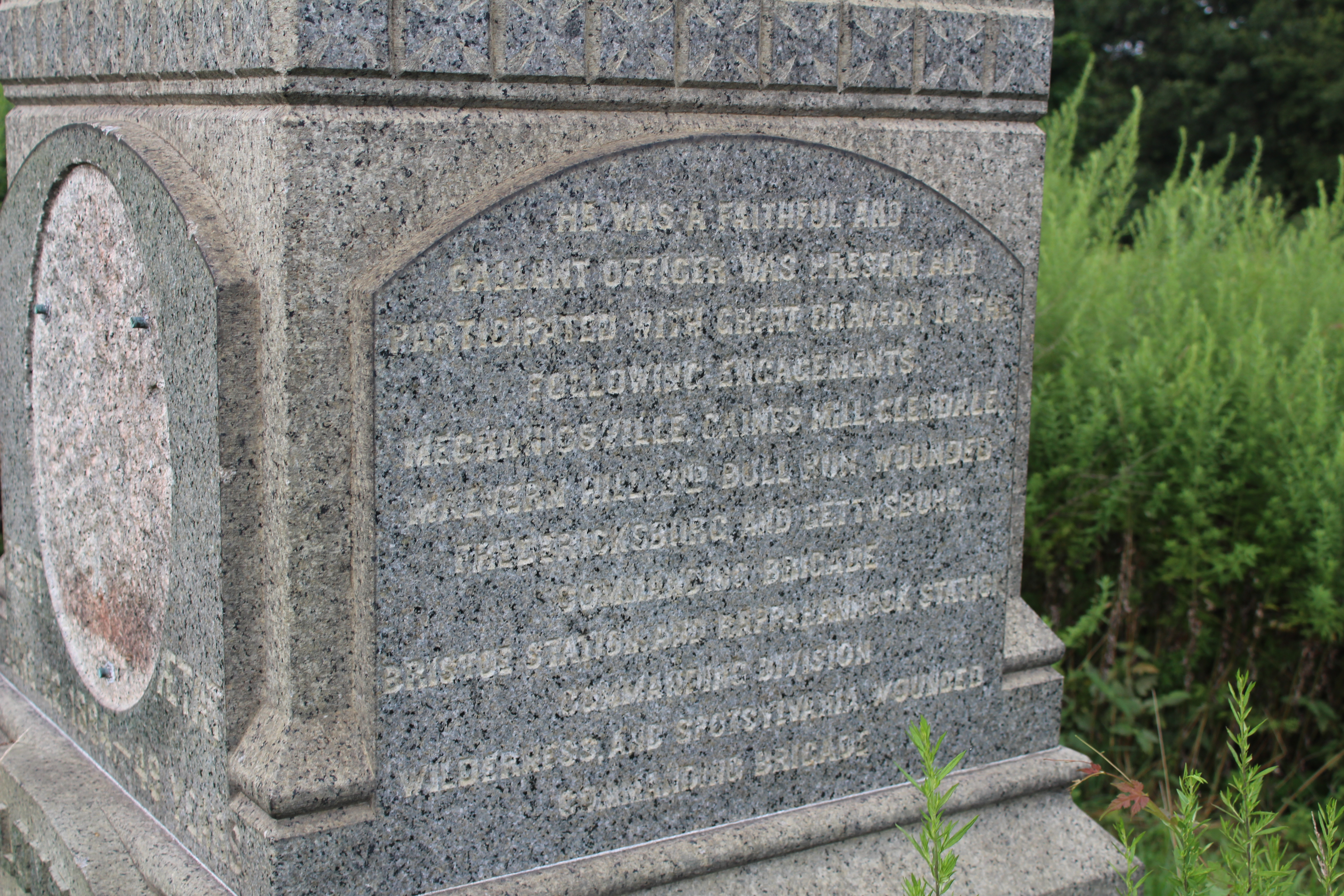 Right Side of William McCandless in Mount Moriah Cemetery in Philadelphia. Photo taken August 2019.